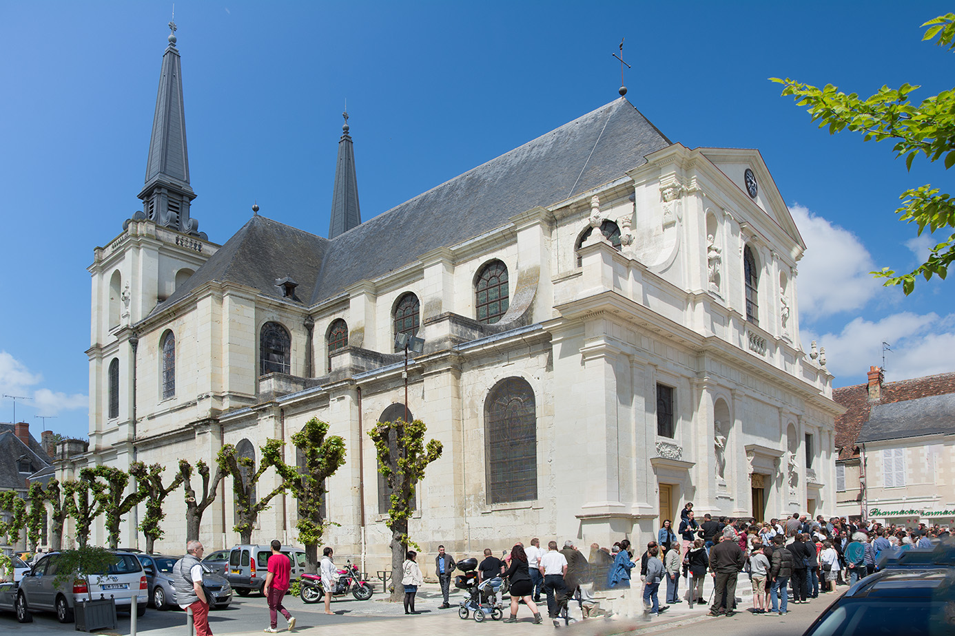 Face exposed Face exposed